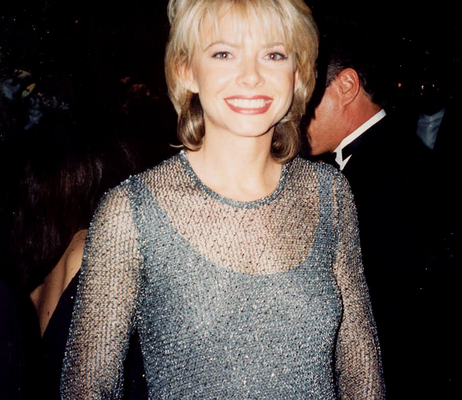 Photo of Faith Ford at the Emmy Awards.